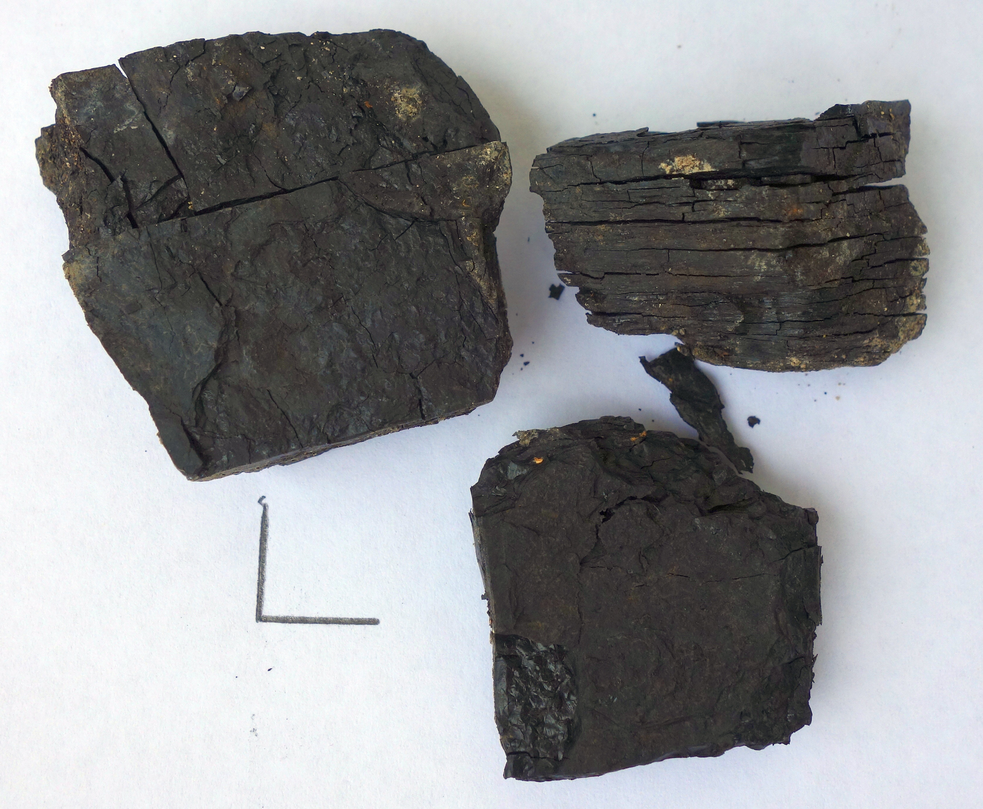 Three pieces of Pechkohle a intermediate between Lignite and Bituminous coal from a small mine near the Ammer river close to Peiting. The pieces have been in the ground for decades an are weathered considerable.